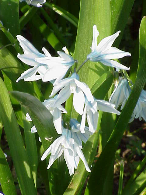 Species: Puschkinia scilloides Family: Hyacinthaceae Image No. 1